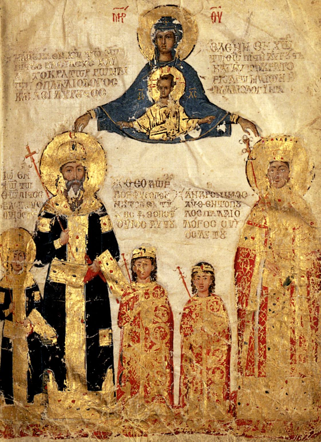 А miniature from the Louvre MS. Ivoires 100 manuscript, depicting the Byzantine emperor Manuel II Palaiologos, empress Helena and three of their sons - the co-emperor John VIII and the Despots Theodore and Andronikos.